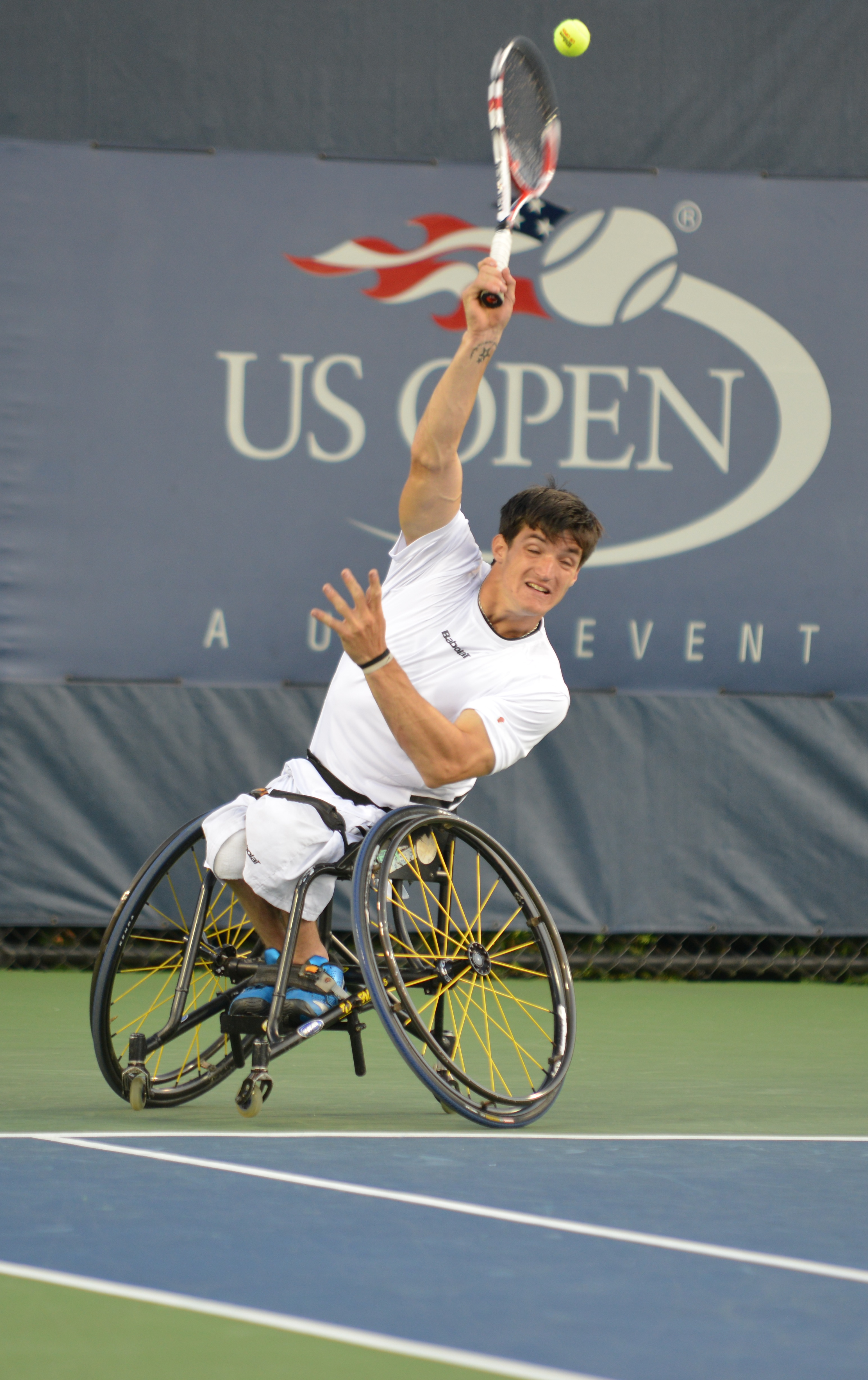 From the 2013 US Open